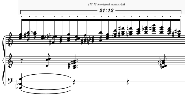 From Kaikhosru Shapurji Sorabji's Piano Symphony No. 6, Symphonia claviensis